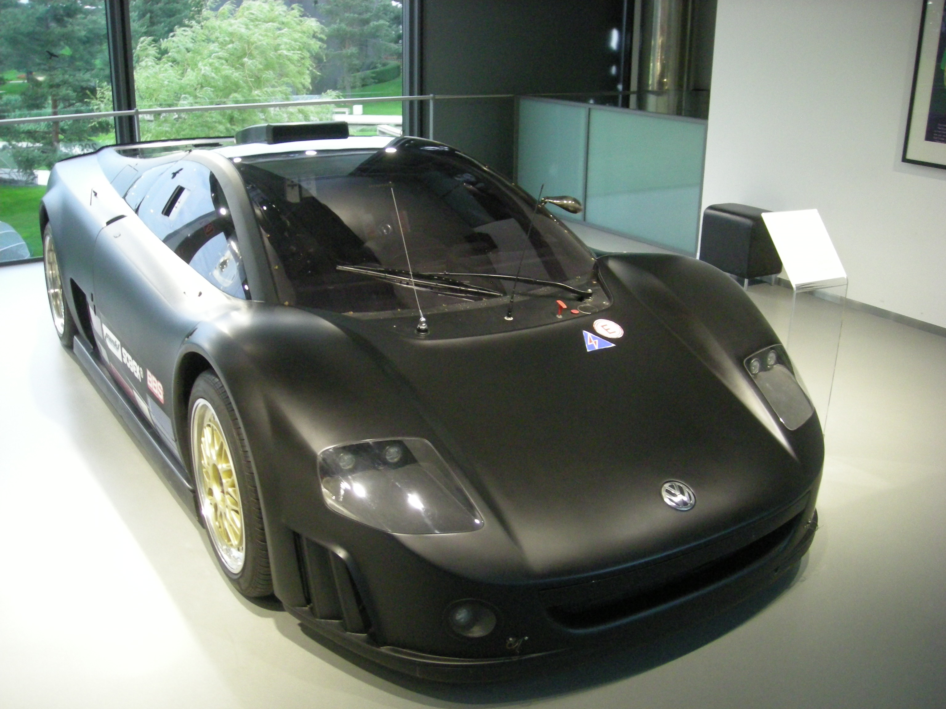 A 2001 Volkswagen W12 Nardo inside the ZeitHaus at Autostadt in Wolfsburg, Niedersachsen (Germany).